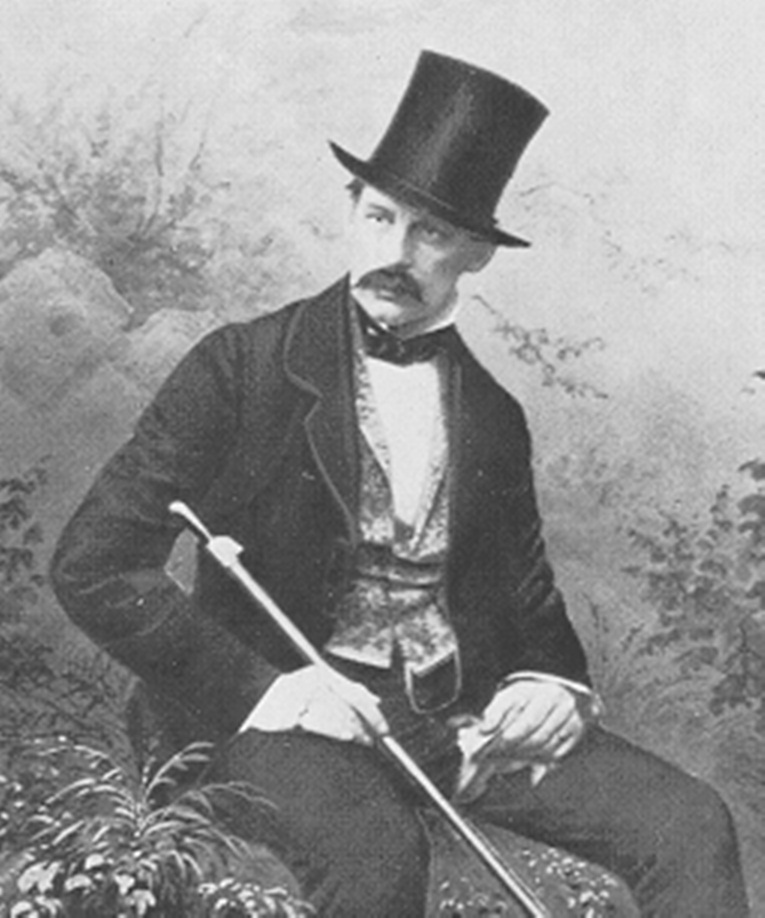 Maximilian Joseph, Duke in Bavaria (4 October, 1808 – 15 November, 1888) was a member of the House of Wittelsbach and a promoter of Bavarian folk-music.